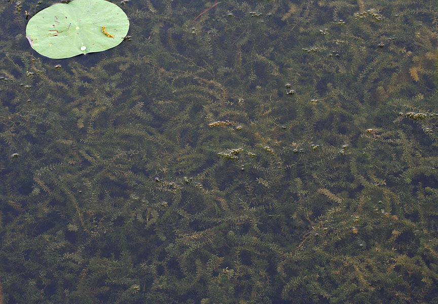 Esthwaite Waterweed or Hydrilla Hydrilla verticillata at Lotus Pond, Hyderabad, India.